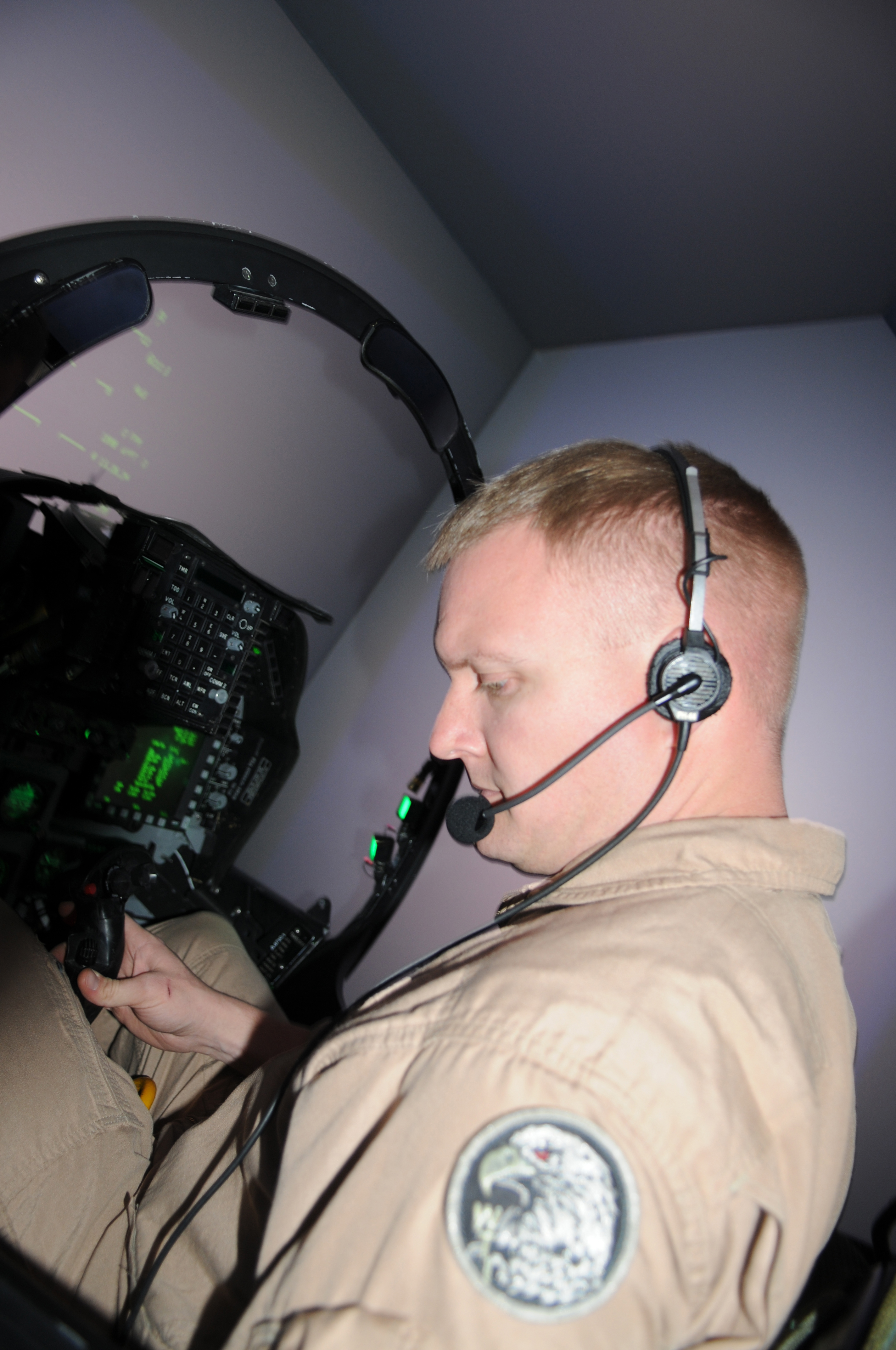 Maj. Casey Elam, Marine Attack Squadron 211 pilot and maintenance officer, practices in an AV-8B Harrier flight simulator at the Marine Corps Air Station in Yuma, Ariz., April 2, 2010. Elam was one of nine Marines selected in 2010 for the U.S. Naval Test Pilot School in Patuxent River, Md. “This has been a dream of mine since I was a young person,” said Elam. “It’s my honor to have this opportunity to learn and grow as an aviator.” The yearlong school tests pilots on their handling of multiple aircraft and understanding of various weapons and navigation systems.